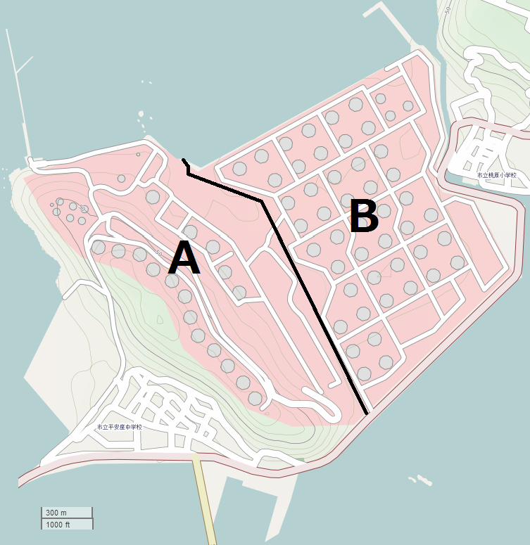 Map of Henza Island, Okinawa. Oil depot A :Okinawa Terminal Co.,LTD Oil depot B :Okinawa CTS Corporation